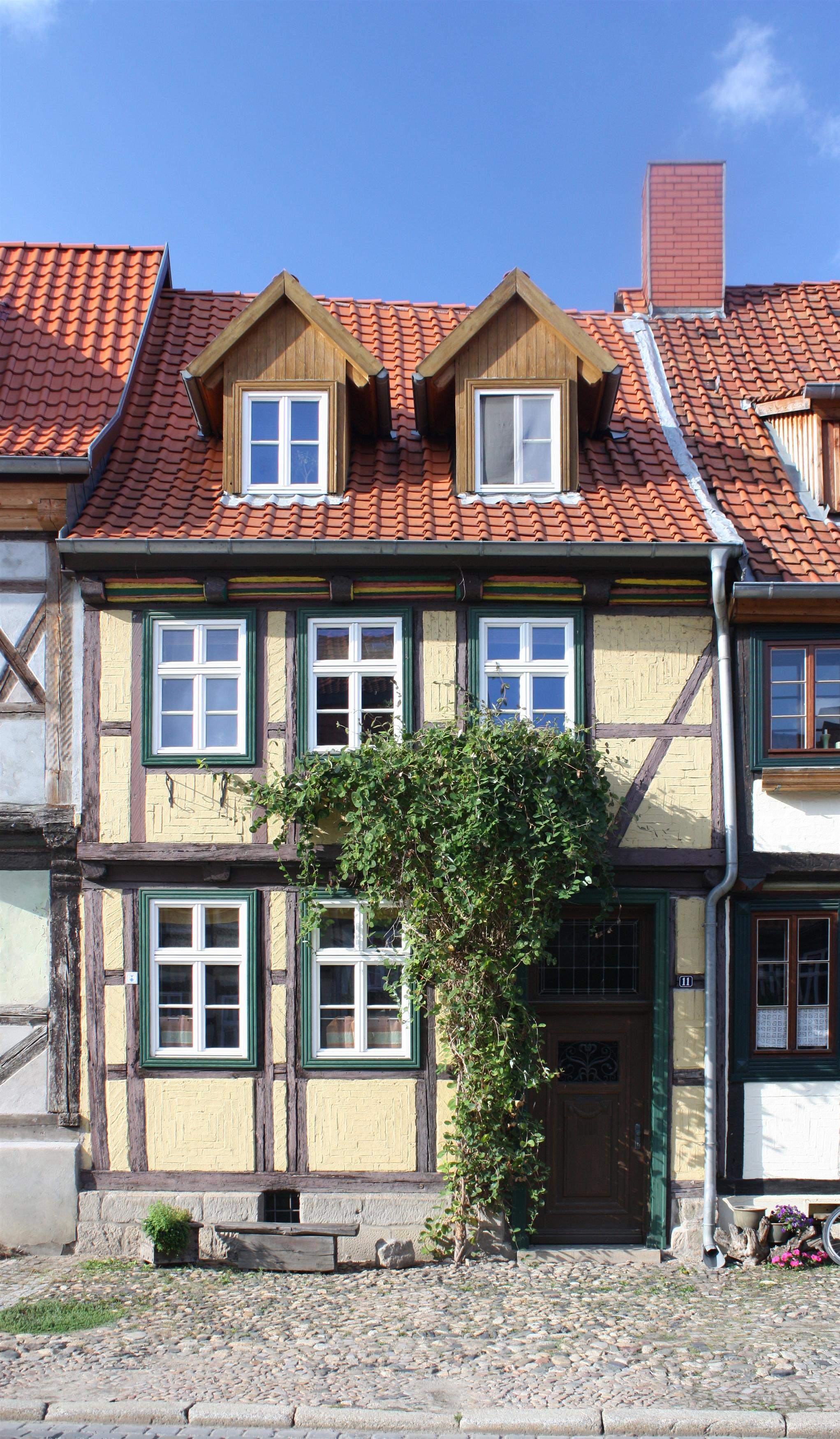 This is a photograph of an architectural monument.It is on the list of cultural monuments of Quedlinburg Augustinern 11 in Quedlinburg